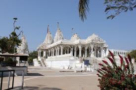 my own collection